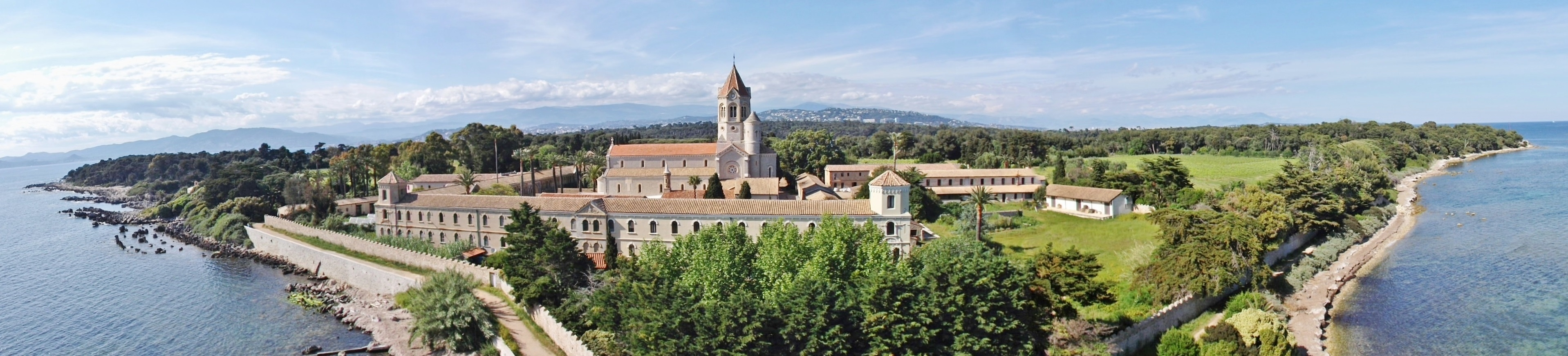 Panoramic sight, from the fortified monastery, of the Saint-Honorat island and the Lérins abbey, in the bay of Cannes, Alpes-Maritimes, France.